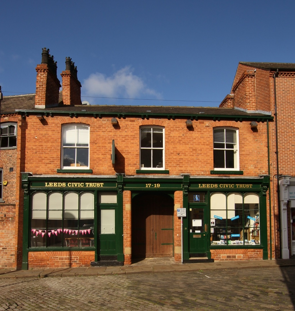 17–19 Wharf Street, Leeds, West Yorkshire, seen from the east. This is the shop and offices of Leeds Civic Trust.